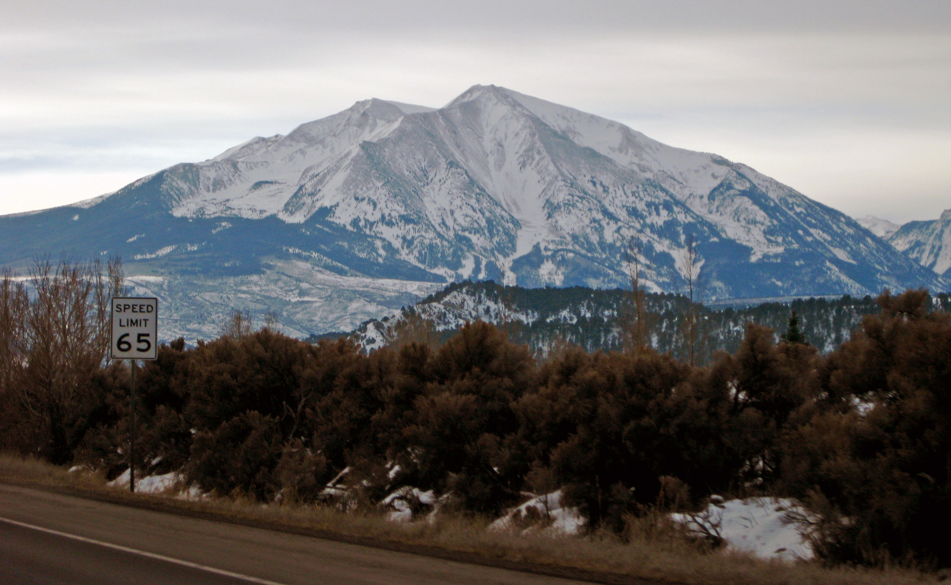 Mt. Sopris